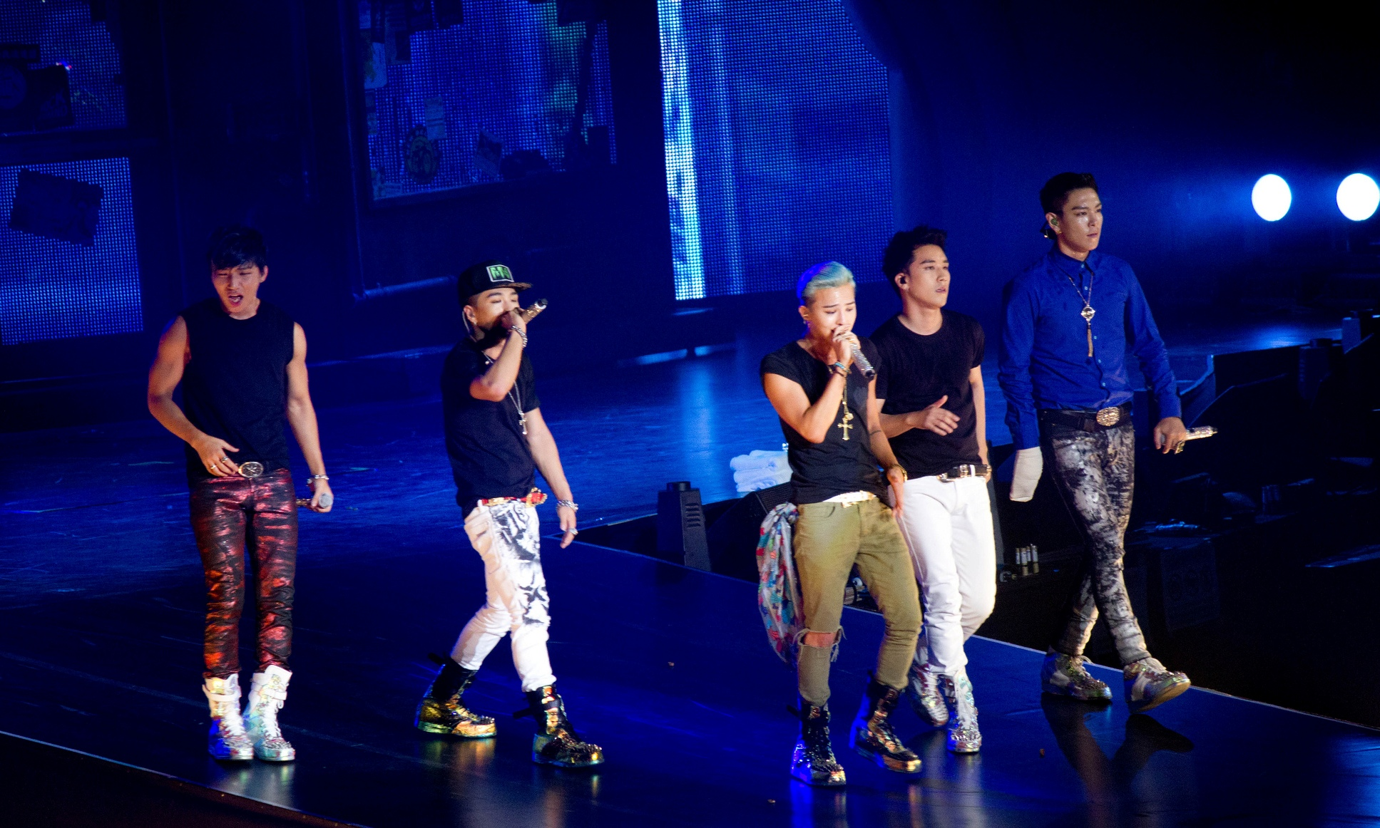 Big Bang performing on Alive World tour